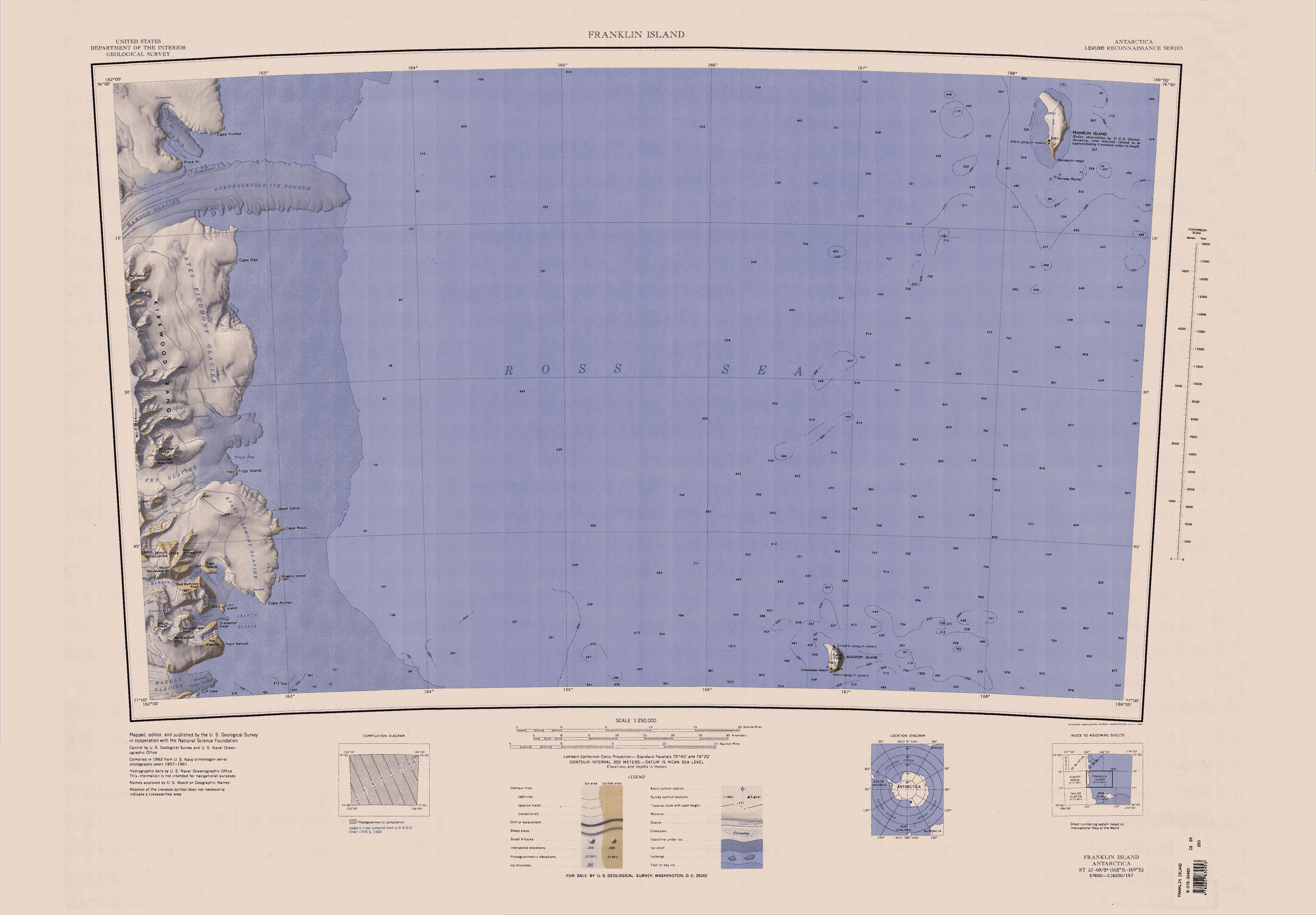 Map of Antarctica by the United States Antarctic Resource Center of the US Geological Society.